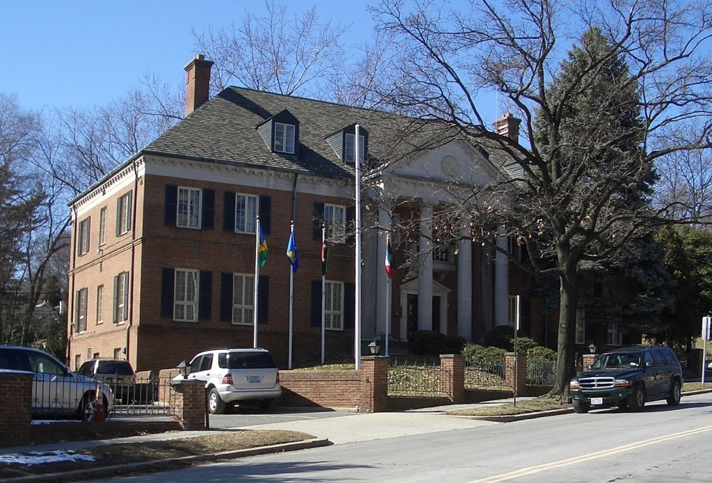 Chancery at 3216 New Mexico Ave, NW, Washington, DC, housing the embassies of Antigua and Barbuda, Dominica, Saint Kitts and Nevis, Saint Lucia, and Saint Vincent and the Grenadines. Embajadas de Antigua y Barbuda, Dominica, Saint Kitts and Nevis, Sainta Lucia y San Vincente y las Granadinas